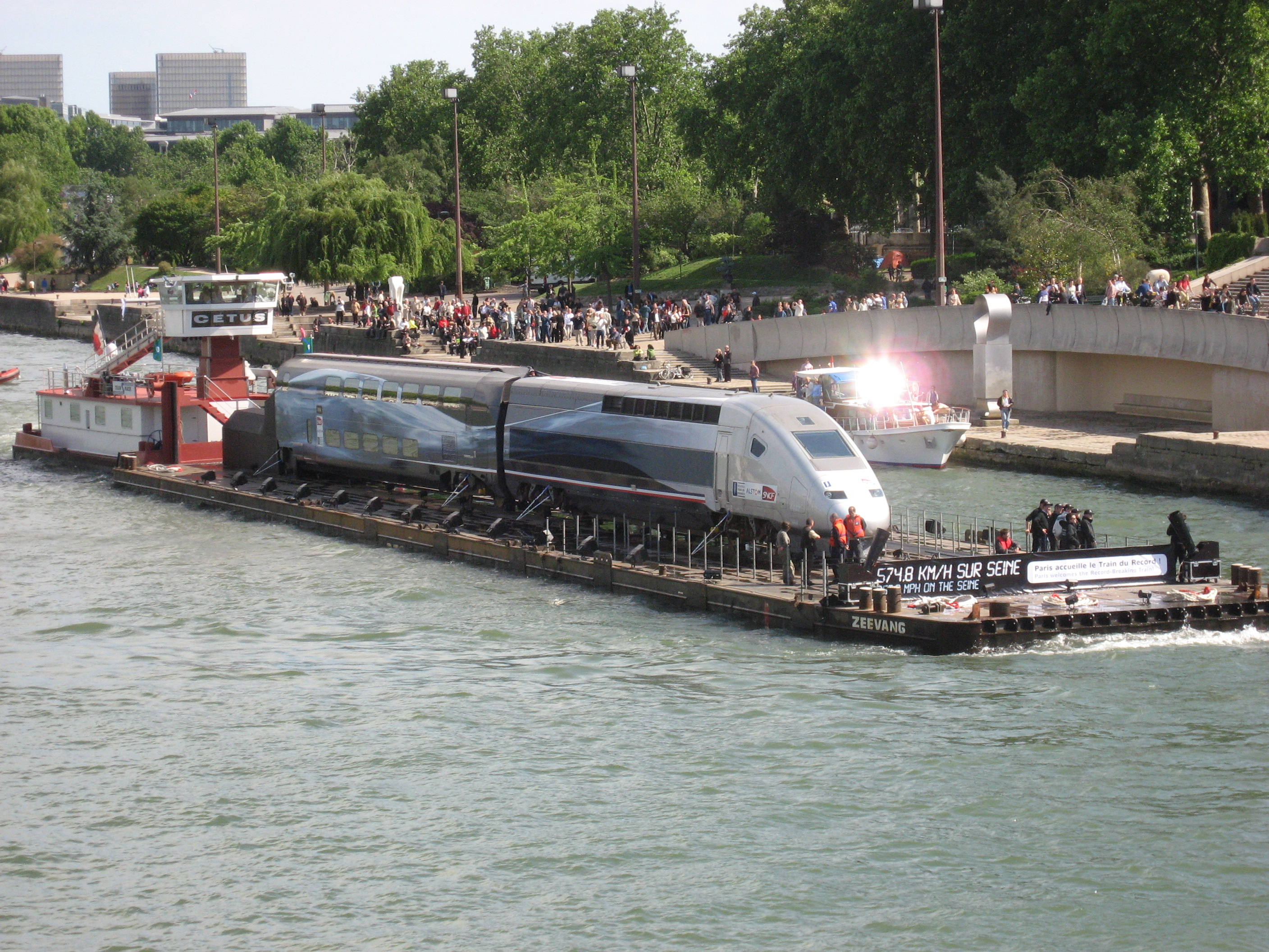 Record-breaking TGV V150 train on a barge on the Seine in Paris, being taken for display near the Eiffel Tower. Photographed from the Pont de Sully.